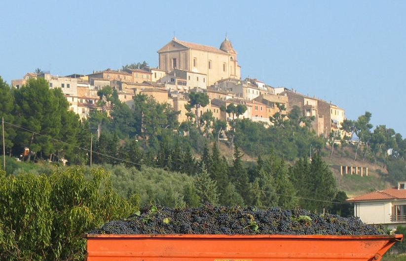 Cropped image of Sangiovese grapes with the village of Montepulciano in the background.